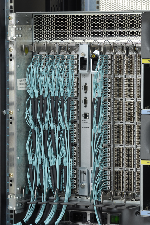 This Fibre Channel Director has 8 slots with 48 SFP+ per slot. OM3 fiber optic cabling connects the Director to end devices and other switches.